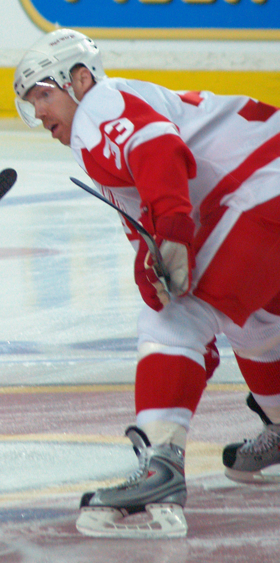 Kris Draper, Calgary, Alberta